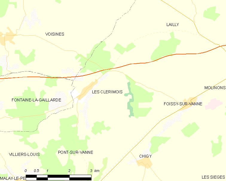 Map of French municipality Les Clérimois